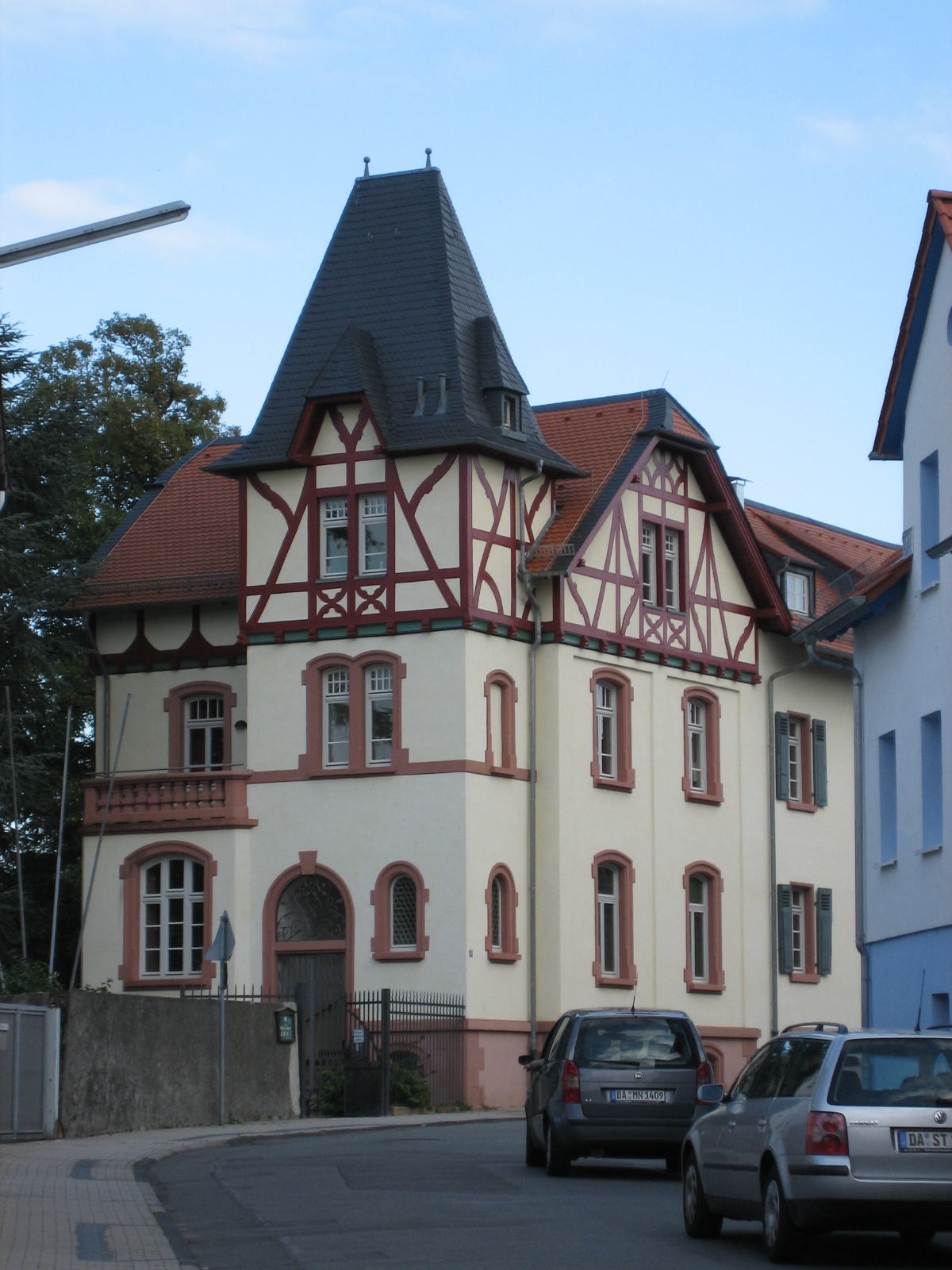 Petri-Villa in Ober-Ramstadt (Sicht aus Richtung der Baustraße